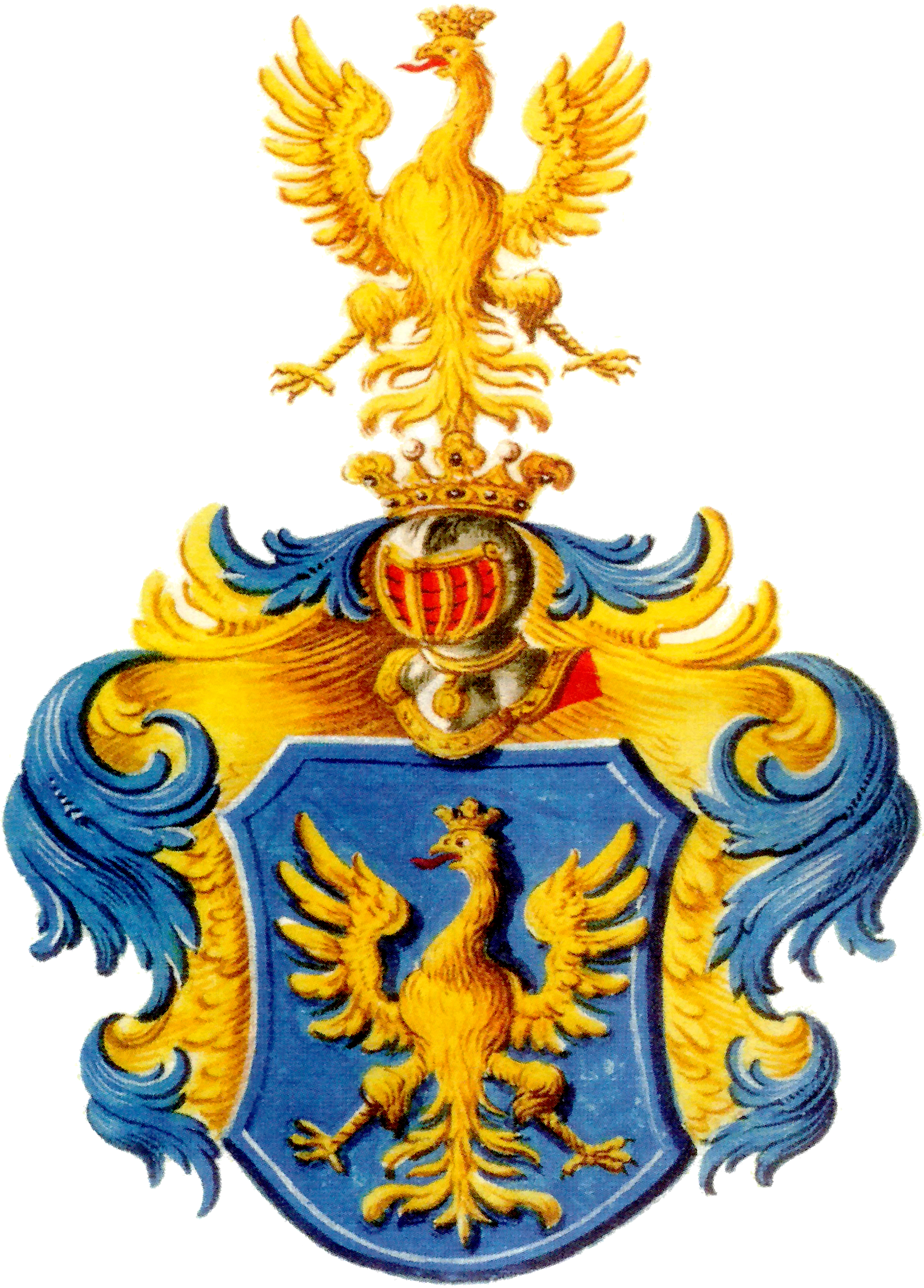 Coat of arms of Cieszyn Piast dynasty